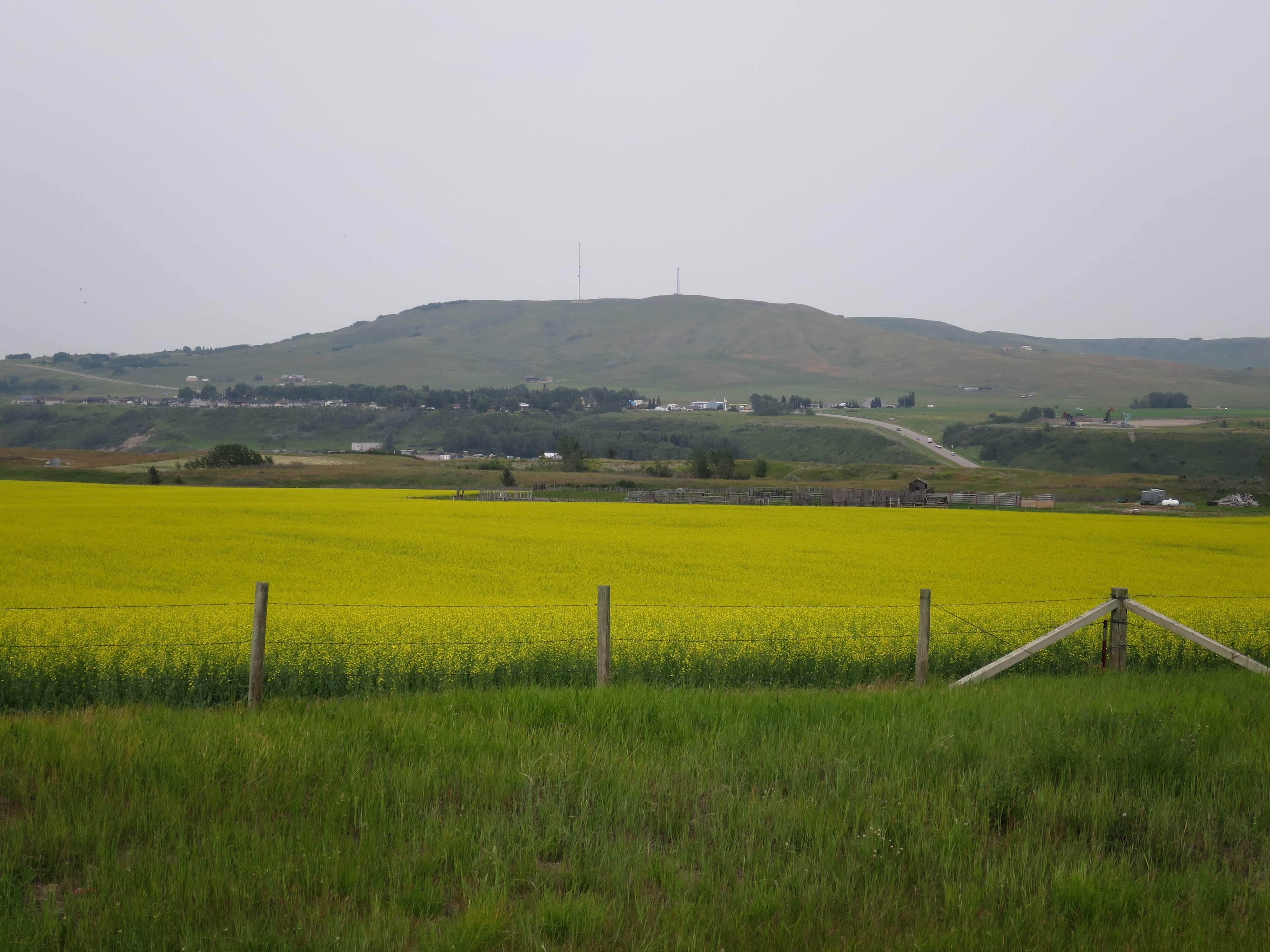 Longview seen from the Cowboy Trail (Alberta Highway 22, Canada) across the Highwood River, looking NE. The Cowboy Trail is visible both left of the village, rising north towards Little Chicago/Royalties, Hartell, Black Diamond and Calgary, and right of the village, descending south to the Highwood River.